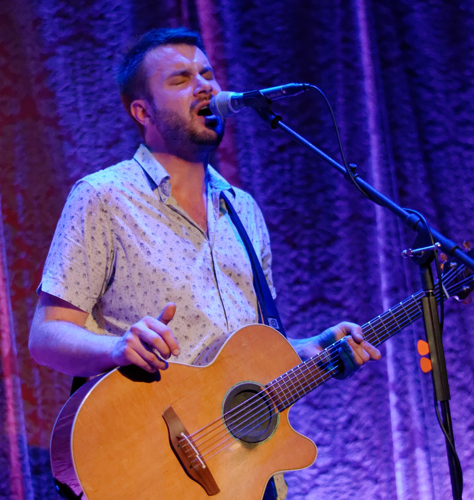 Howie Day performing at Saint Rocke in 2013